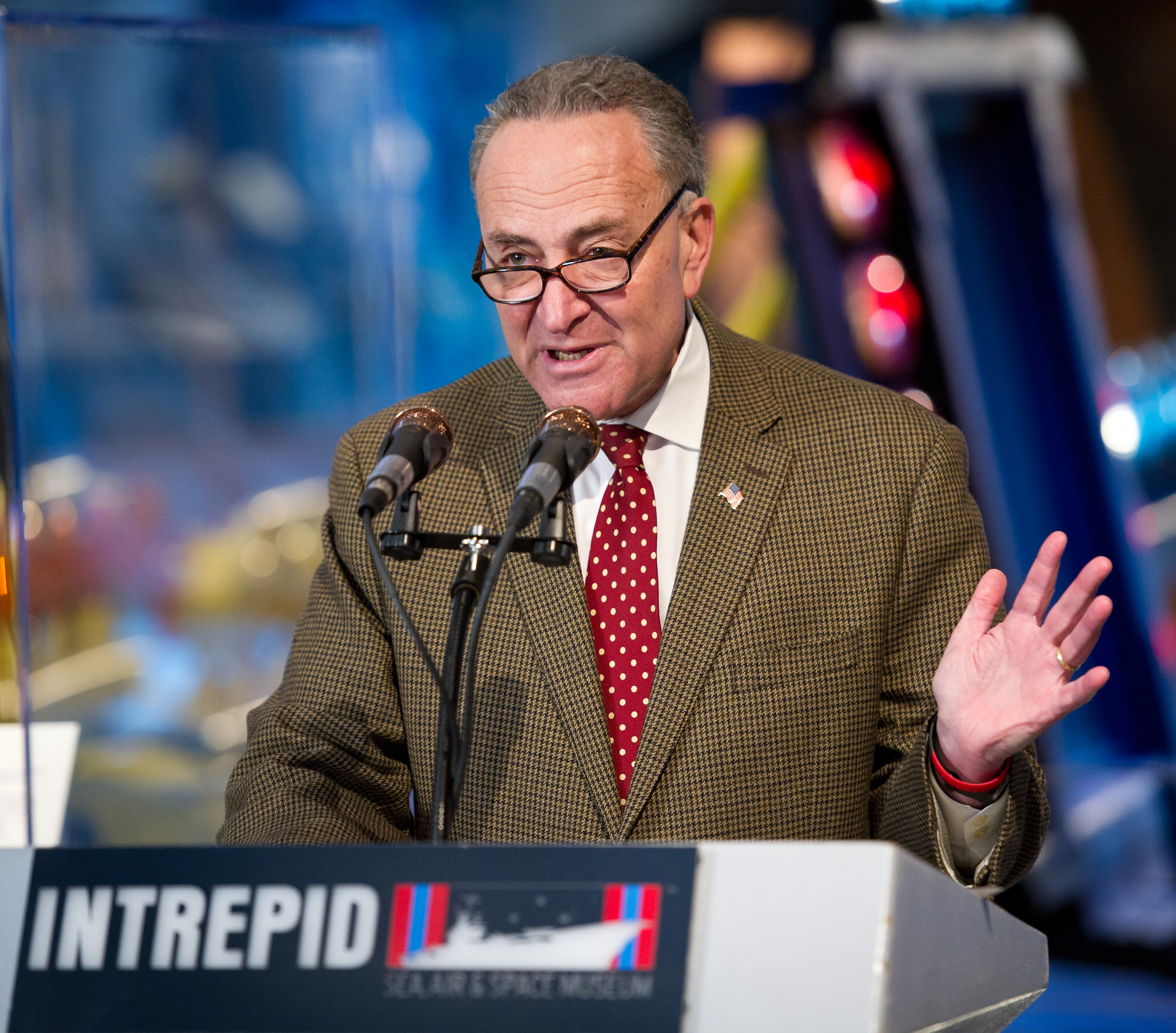 Sen. Charles Schumer, D-N.Y., speaks during a ceremony where NASA transferred title and ownership of space shuttle Enterprise to the Intrepid Sea, Air & Space Museum on Sunday, Dec. 11, 2011 at the museum in New York City. The transfer is the first step toward Intrepid receiving Enterprise in the spring of 2012.